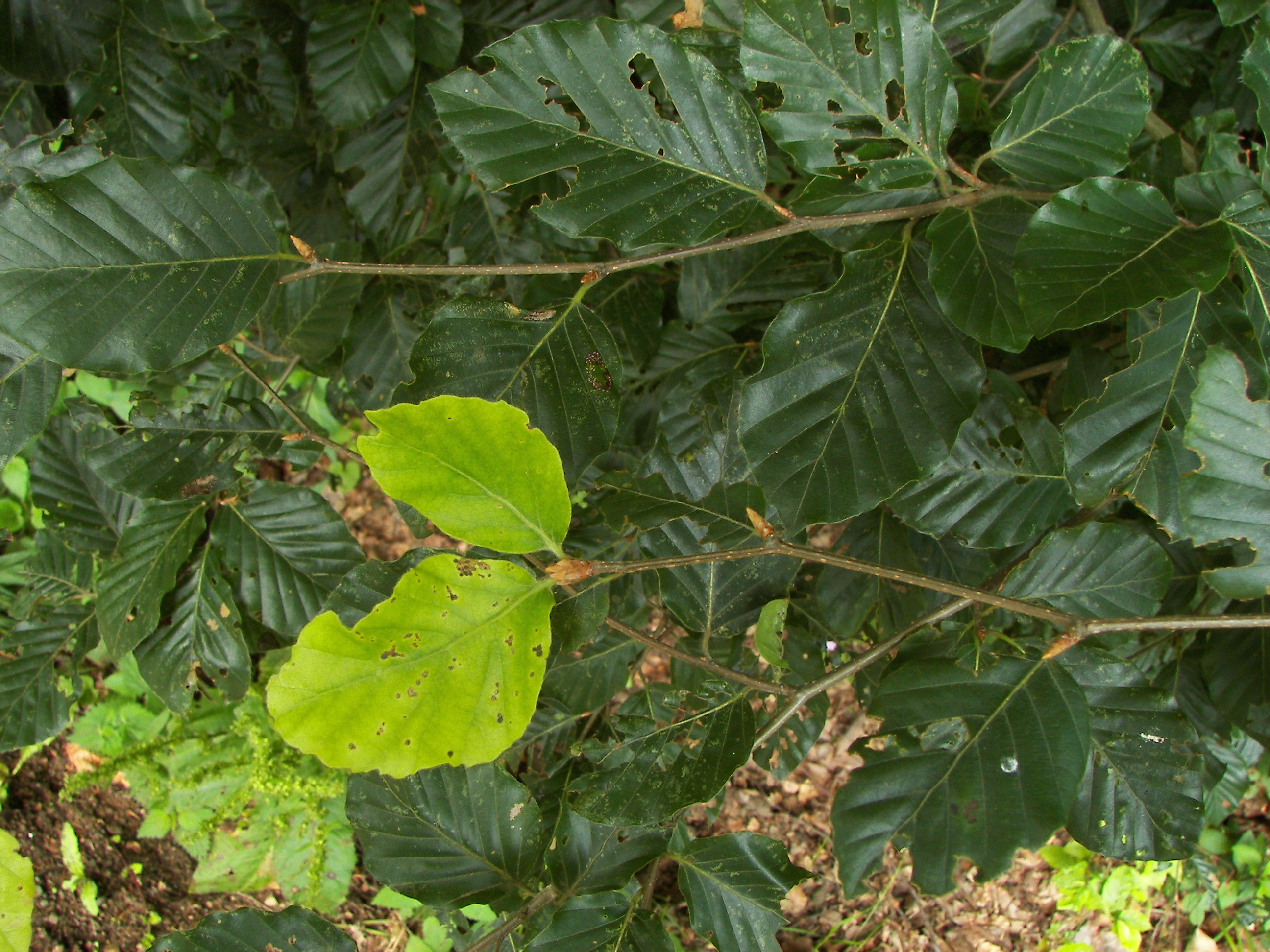 Lammas shoot of the European Beech (Fagus sylvatica), Location: Rimberg, Municipality Lahntal, Marburg-Biedenkopf County, Hesse, Germany